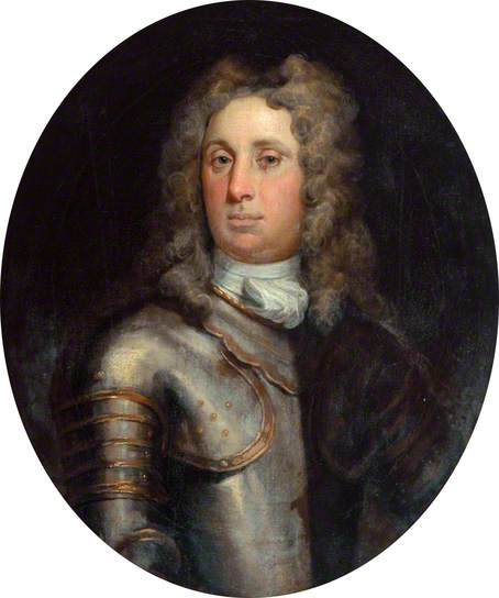 Peregrine Lascelles, Whitby Museum, North Yorkshire